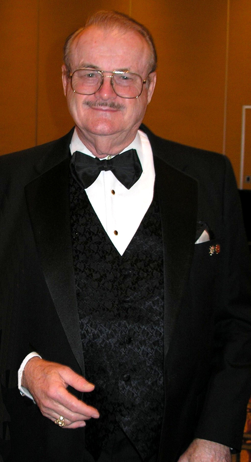 Picture of sci-fi author Jerry Pournelle in a tuxedo. License from photographer, Geo Rule: I hereby place the cropped image of just Jerry in the public domain and release rights to anyone and everyone (even the heathen geeks who wear no breeks…) From: "Geo Rule" To: Cc: , Subject: RE: [Fwd: FW: Undone Re: Wikipedia picture (…)] Date: Sat, 26 Jan 2008 20:09:19 -0600 Message-ID: Dear Flash/Jerry/Deb-- My name is George E. ("Geo" or "G. E.") Rule, and I took the picture of Jerry Pournelle in a tuxedo in Seattle at the 2005 NASFIC. The picture was originally of my wife (Deb) and Jerry, but was later cropped to be just Jerry. I hereby place the cropped image of just Jerry in the public domain and release rights to anyone and everyone (even the heathen geeks who wear no breeks --a little Beam Piper shout-out for Jerry!) to use it however they like. If they care to credit it to "G. E. Rule" they are free to do so, but I don't insist on it. Jerry is free to do what he likes with any of the pictures we sent him from that event. Geo Rule …Ramsey, MN 55303 … There, Flash, will that cover it?